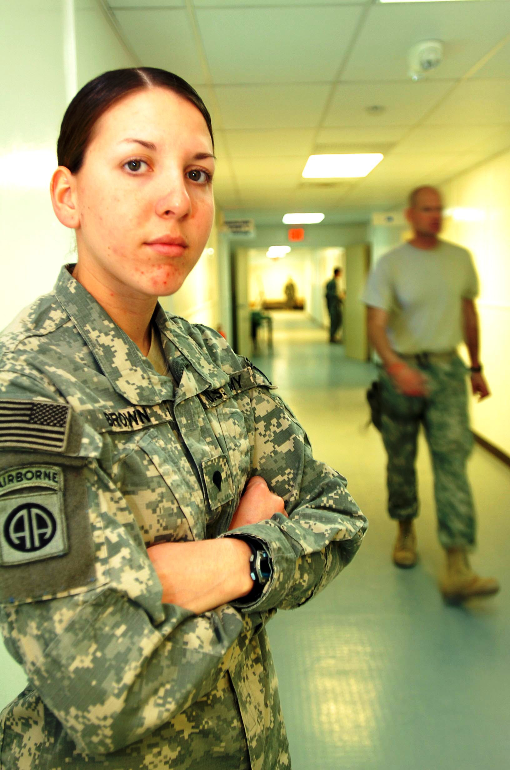 U.S. Army Specialist. Monica Brown, a medic from 782nd Brigade Support Battalion, 4th Brigade Combat Team, 82nd Airborne Division, at the hospital on Forward Operating Base Salerno, Afghanistan. Brown is the second woman since World War II to be awarded a Silver Star for gallantry in combat. Photo by Spc. Micah E. Clare, USA